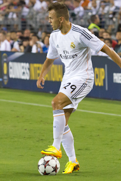 Denis Cheryshev of Real Madrid playing against LA Galaxy at University of Phoenix Stadium on August 1, 2013.